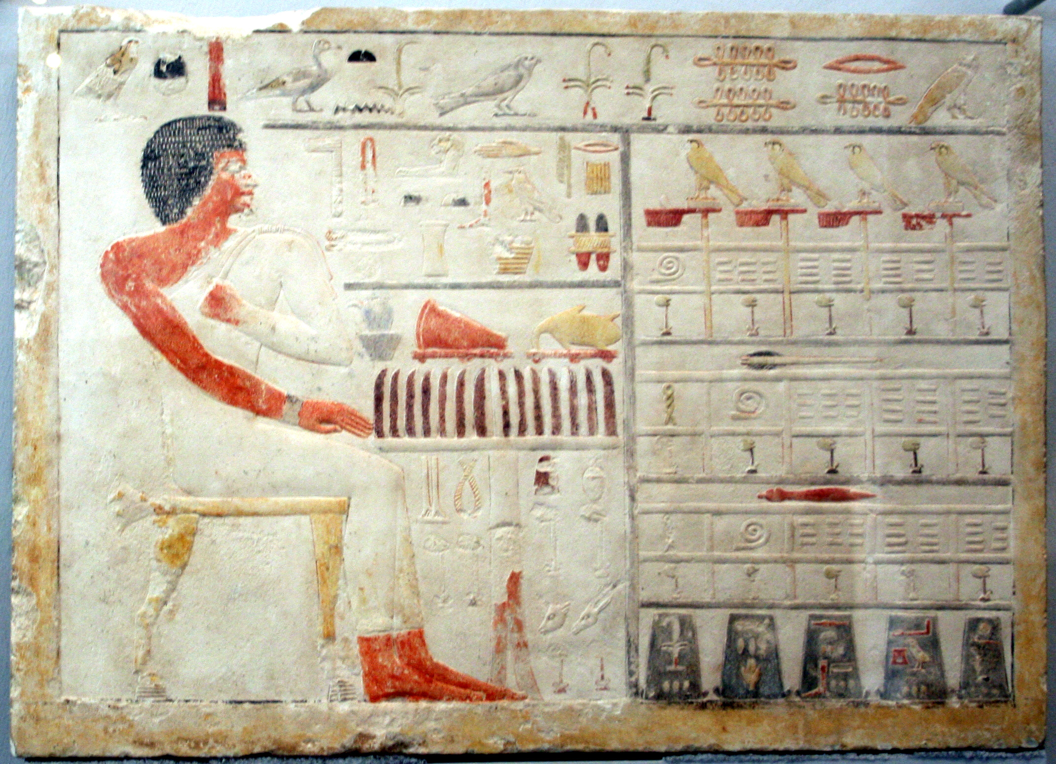 Slab stela of Iunu from his tomb at Gizeh